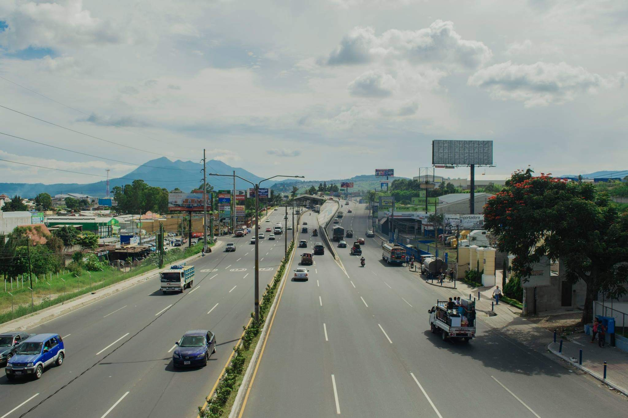 Autopista CA-9 Sur, Villa Nueva